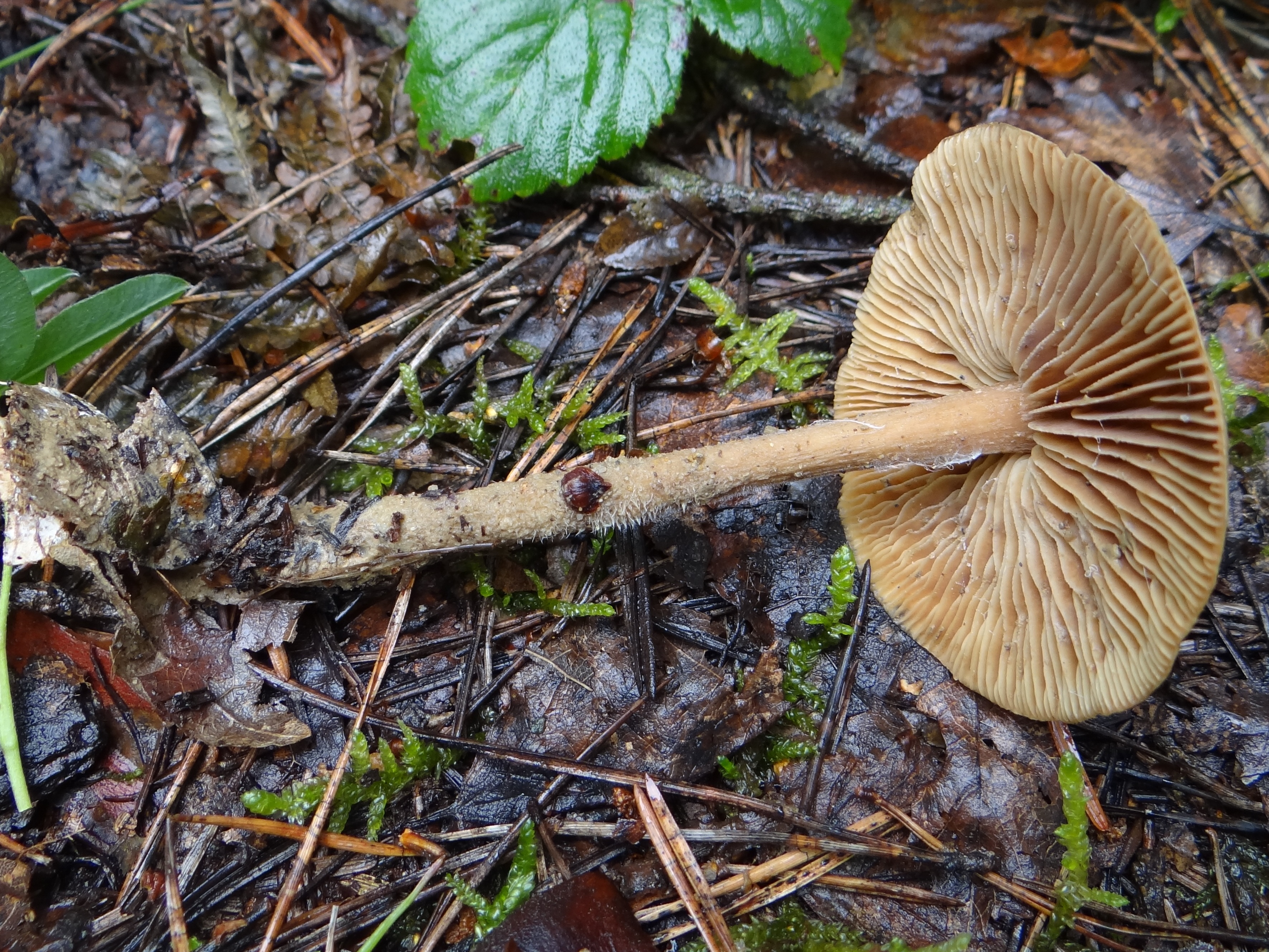 Gymnopus peronatus (location: Poland, Stare Rybie)